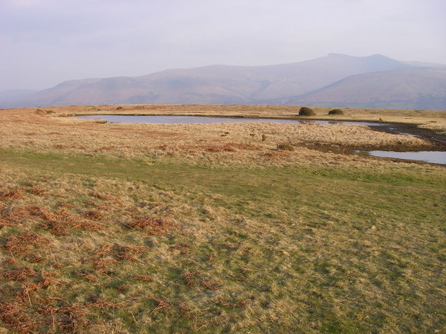 Ponds on Mynydd Illtud Two shallow ponds lie on the plateau-like surface of Mynydd Illtud - an area of common land beside the Brecon Beacons National Park visitor centre (the 'Mountain Centre')at Libanus. Visible in the background are Pen y Fan (left) and Corn Du (right)